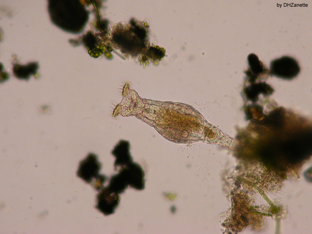 Lateral view of bdelloidea, a rotifer.